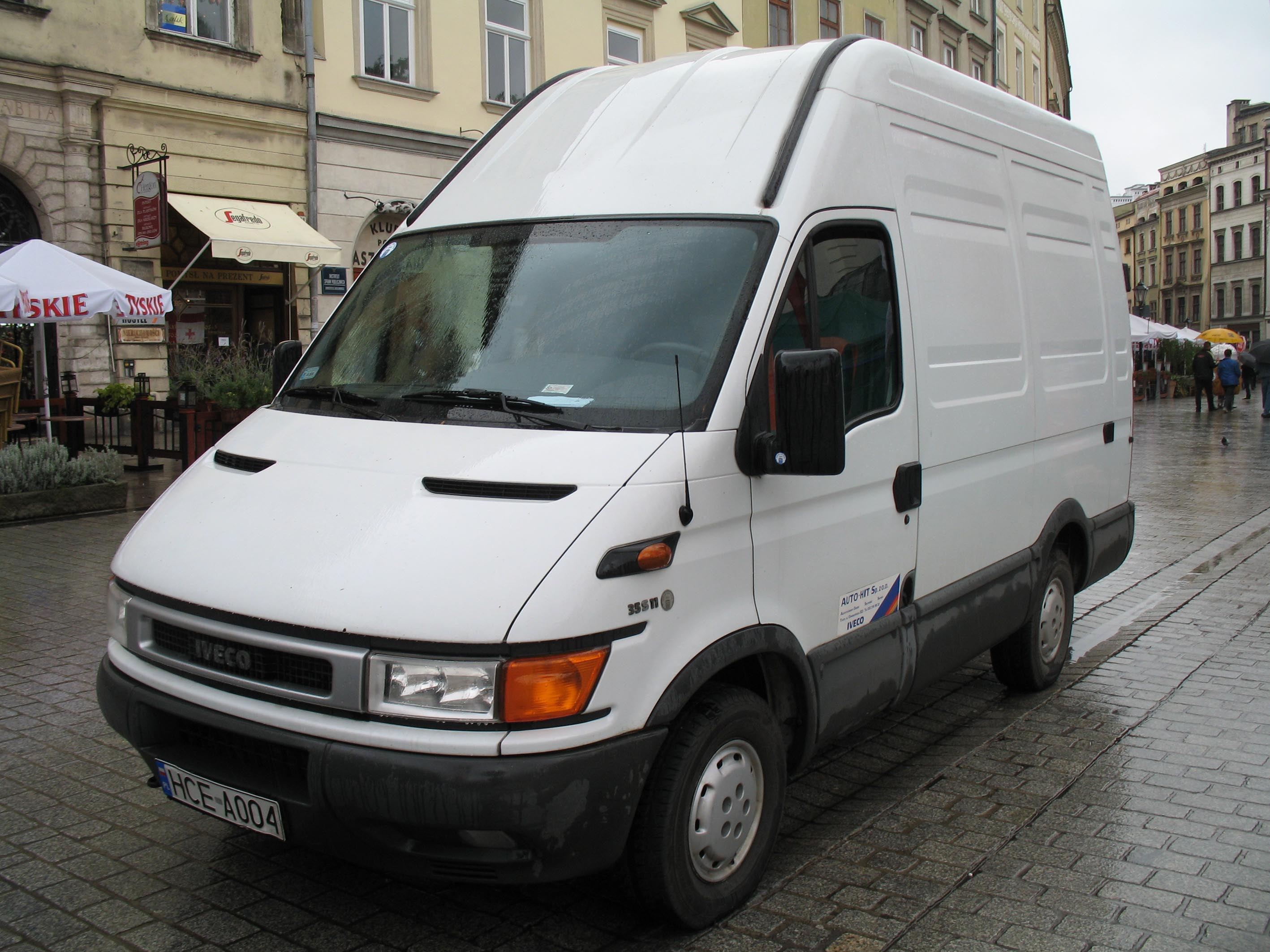 Iveco Daily 35S11 in Kraków, Poland. Van of the Year 2000.